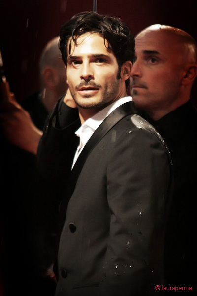 Actor Marco Bocci - Red Carper